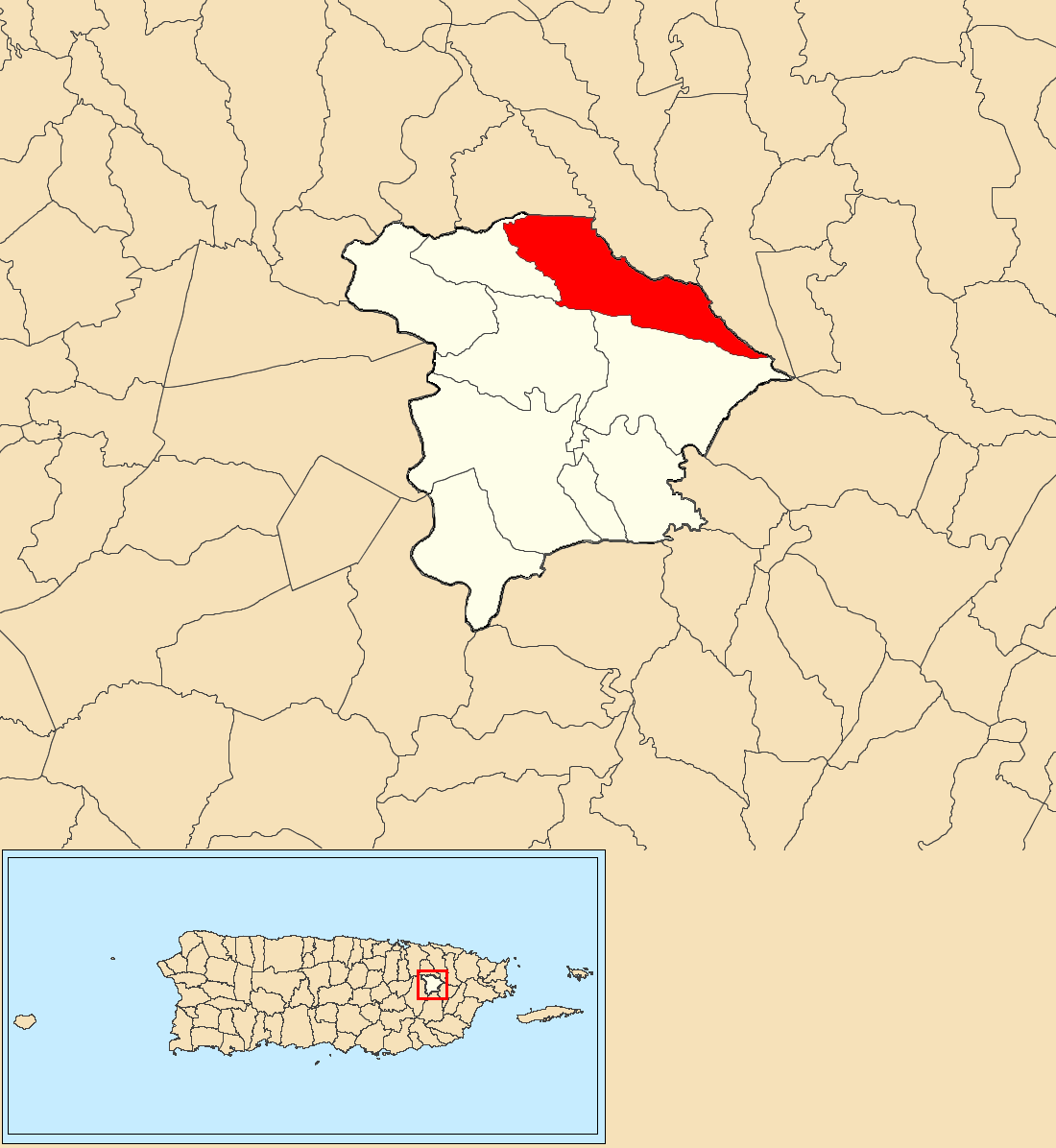 Masa, Gurabo, Puerto Rico locator map